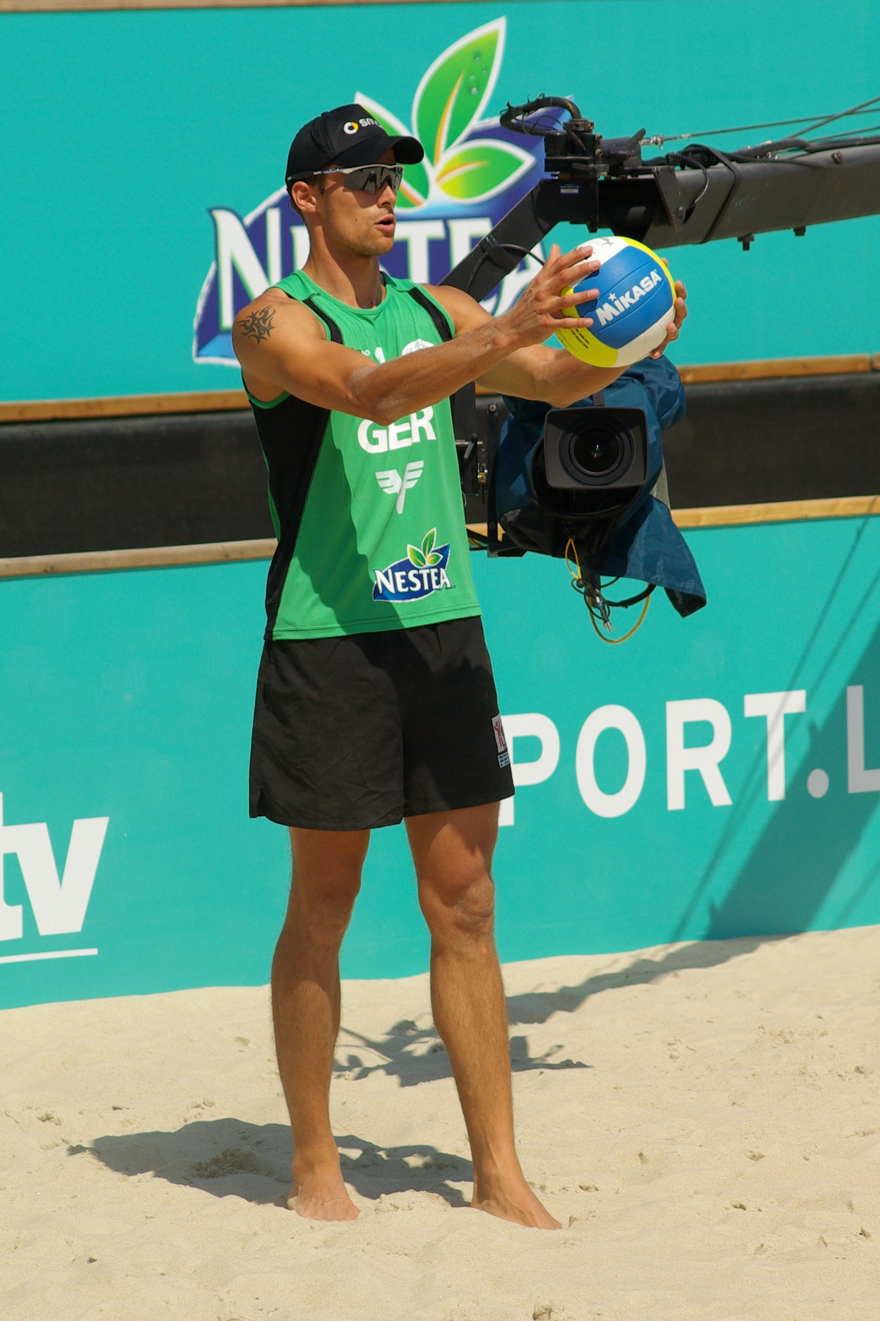 German Beach volleyball player Eric Koreng at the European Championship Tour 2008 Austrian Masters in St. Pölten.